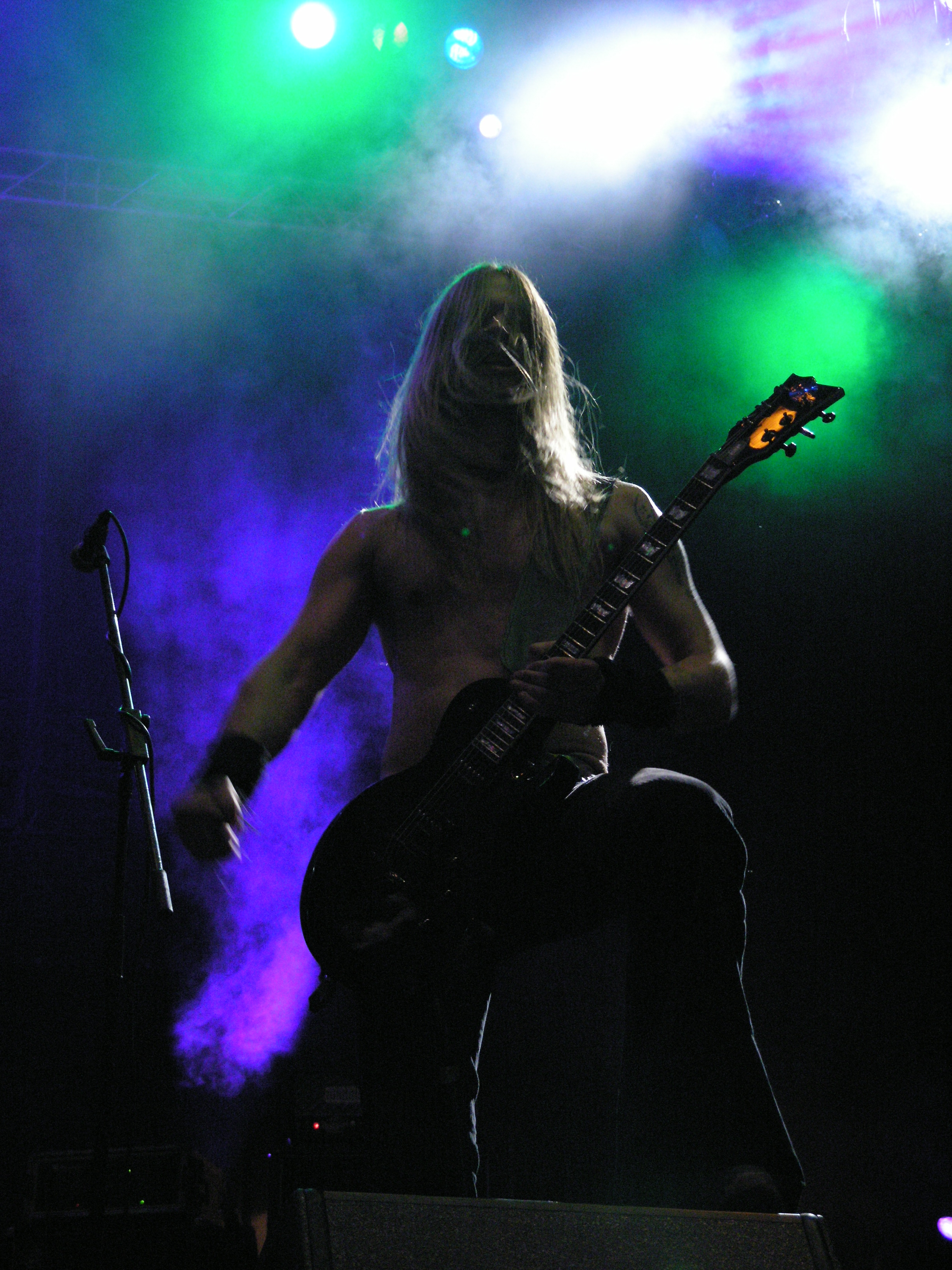 Samuli Ponsimaa from Finntroll during Masters of Rock 2007 festival